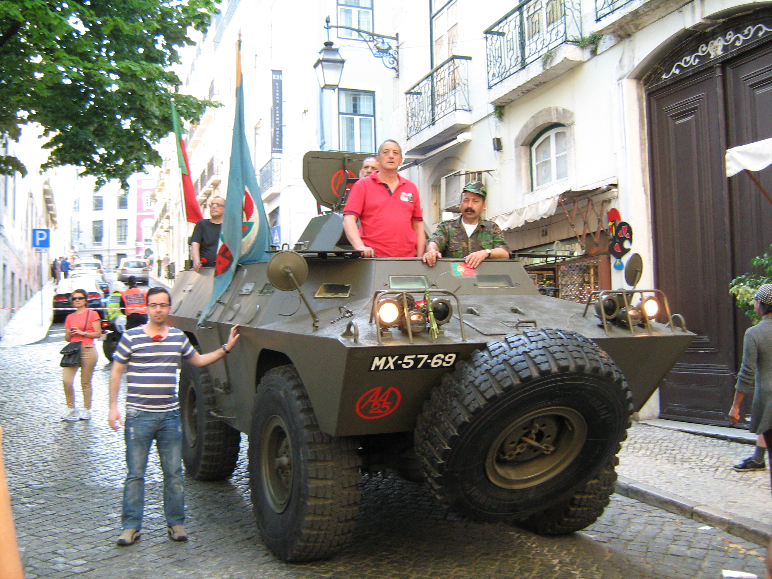 Largo do Carmo in Lisaboa, Portugal, on April 25, 2013, the 39'th anniversary of the Carnation Revolution, that took place on this square in 1974.